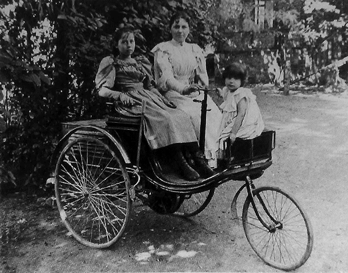 Photo with Thilde, Clara and Ellen Benz sitting on a Patent-Motorwagen.